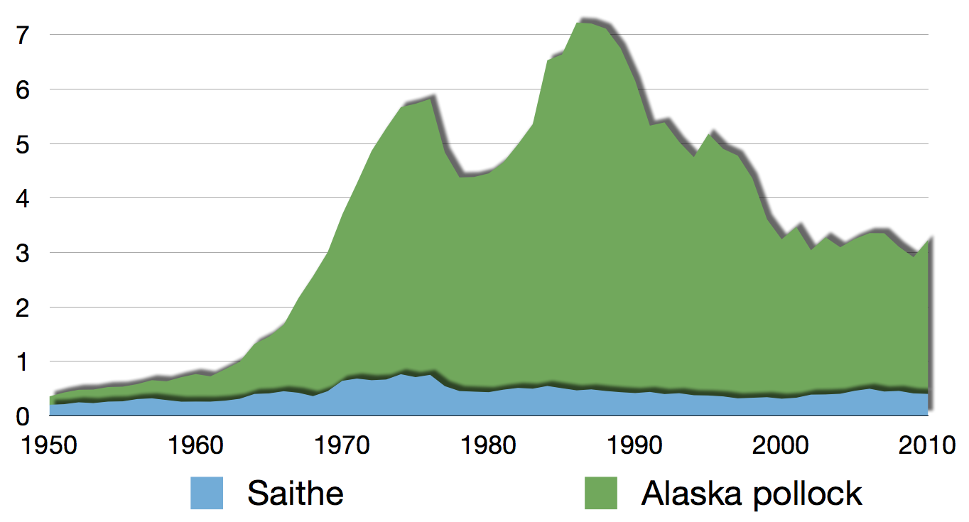 Global capture of all pollock species in millions of tonnes, 2010, as reported by the FAO. Based on data sourced from the relevant FAO Species Fact Sheets